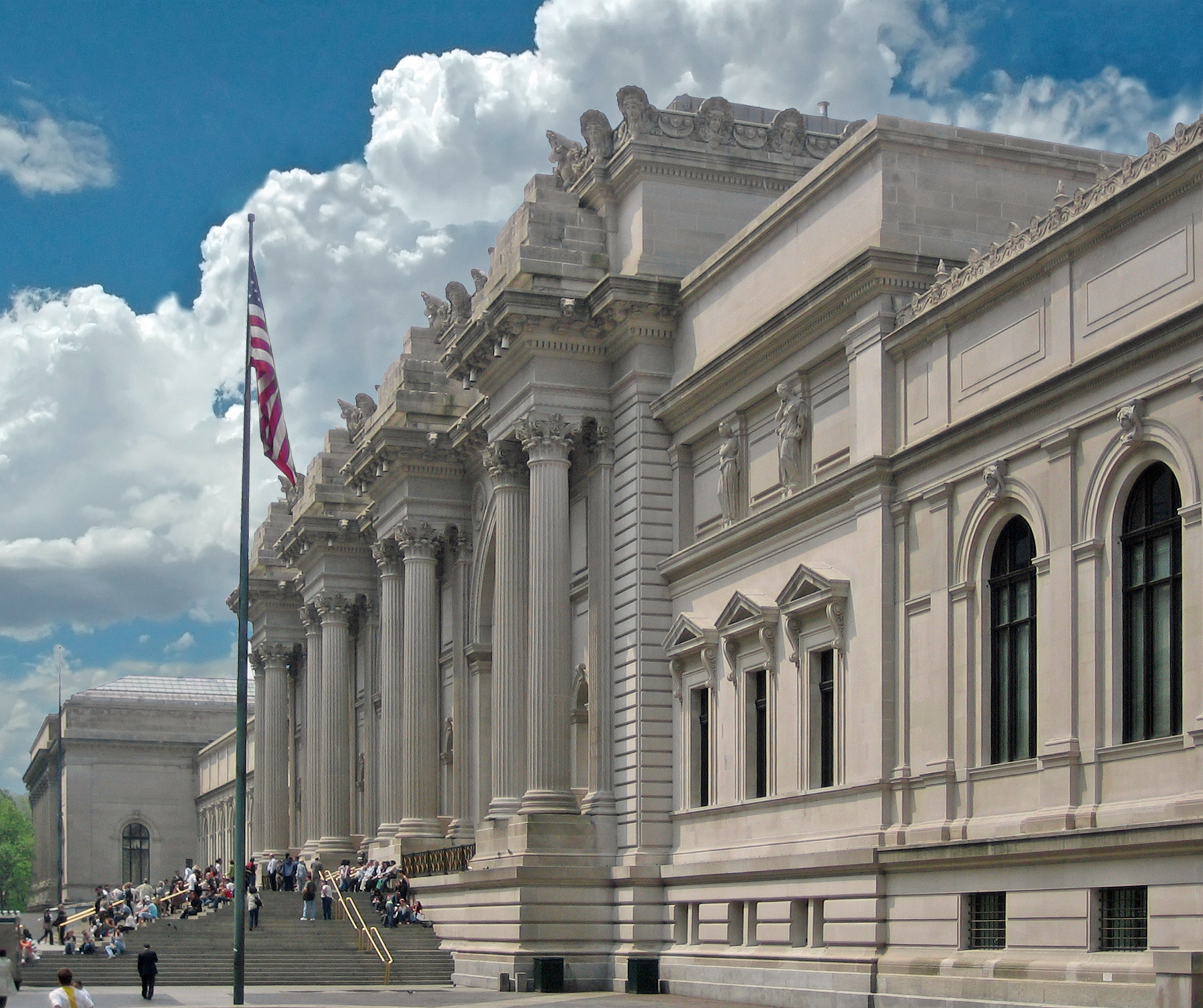 Fifth Avenue entrance facade of the Metropolitan Museum of Art, NYC.